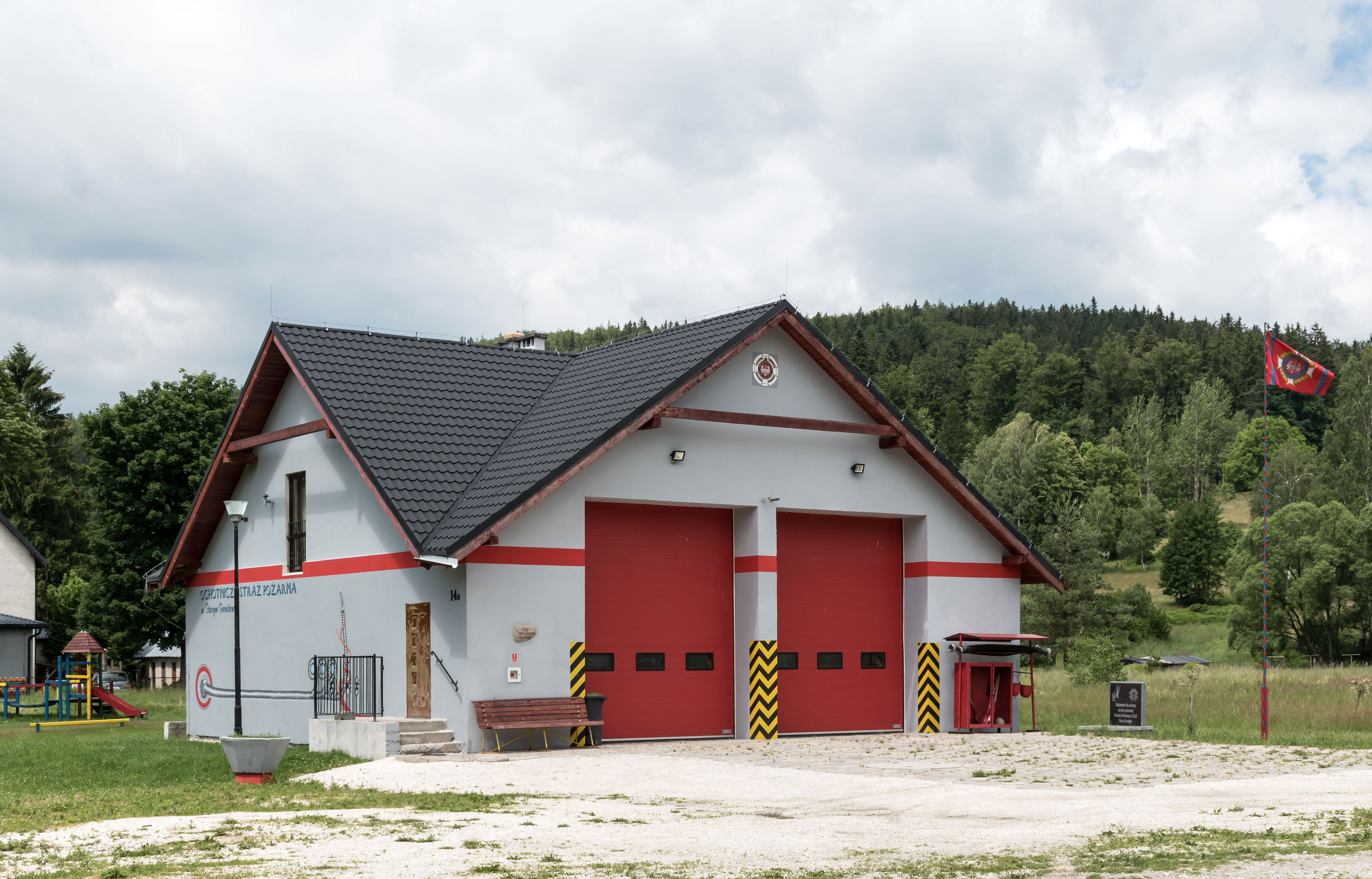 Fire station in Stary Gierałtów